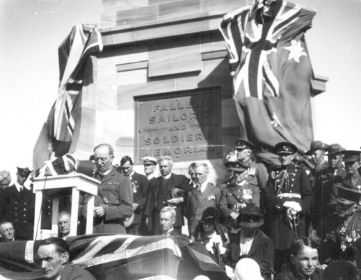 A photograph of the unveiling of the Fremantle War Memorial, taken on Armistice Day (November 11), 1928.